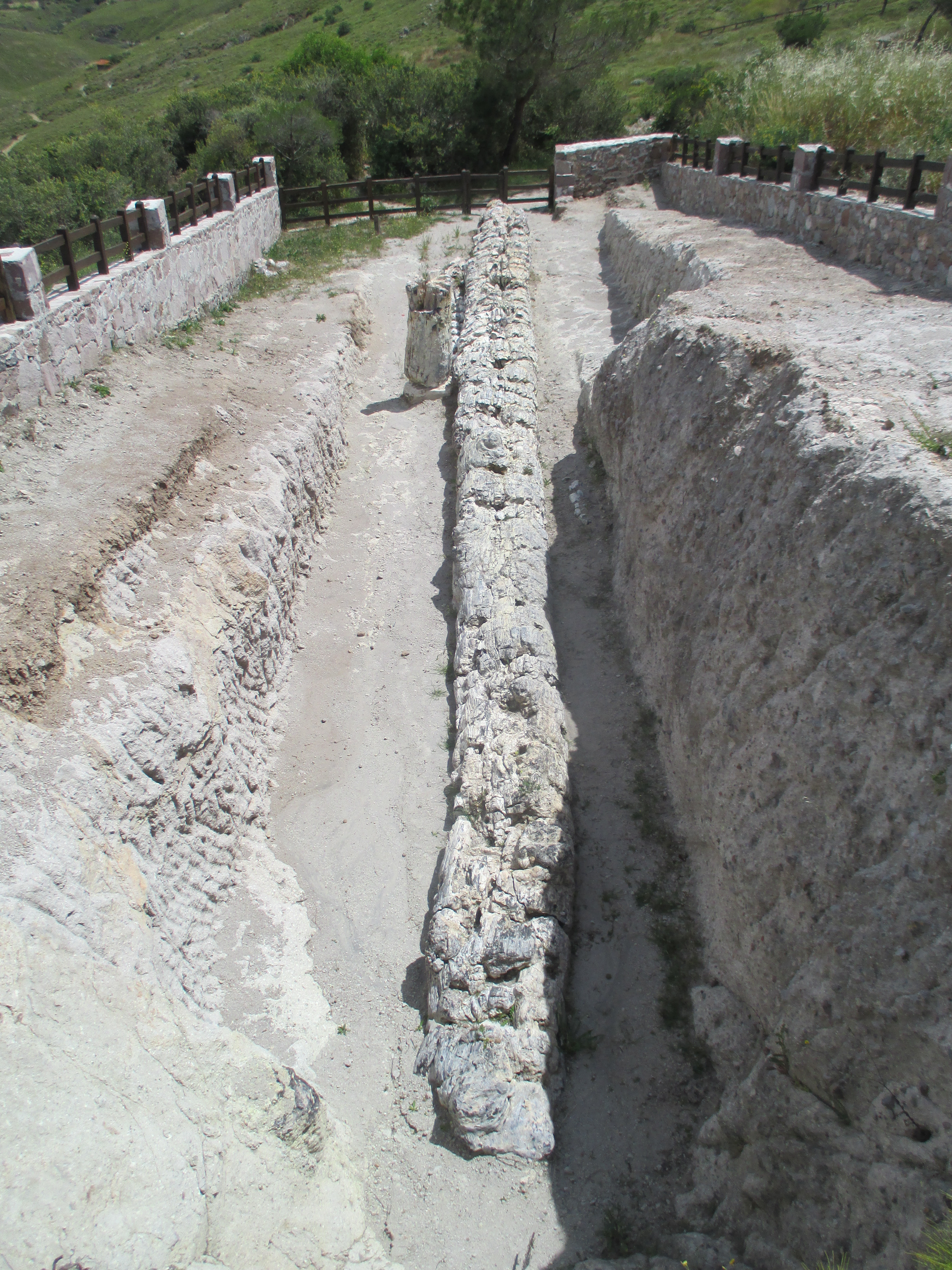 Petrified forest of Lesbos (Lesvos), Greece.